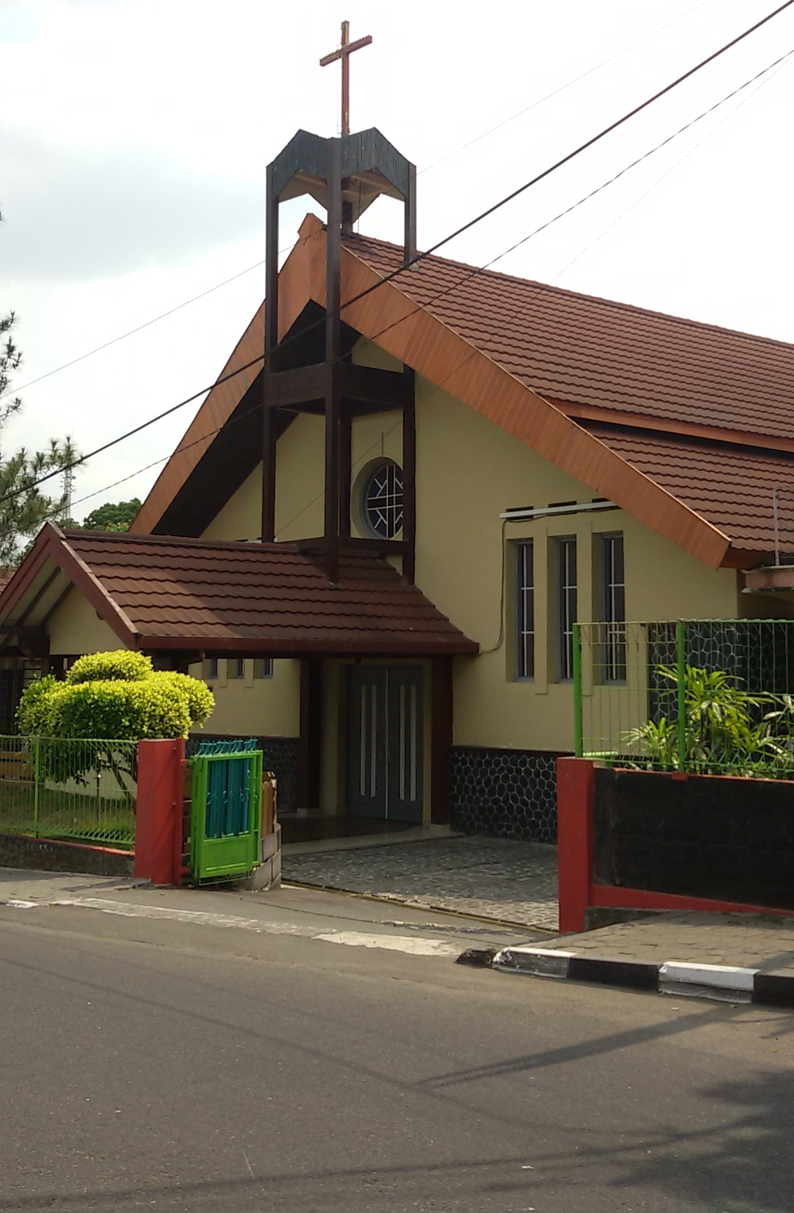 St Mary Assumpta Pakem Church